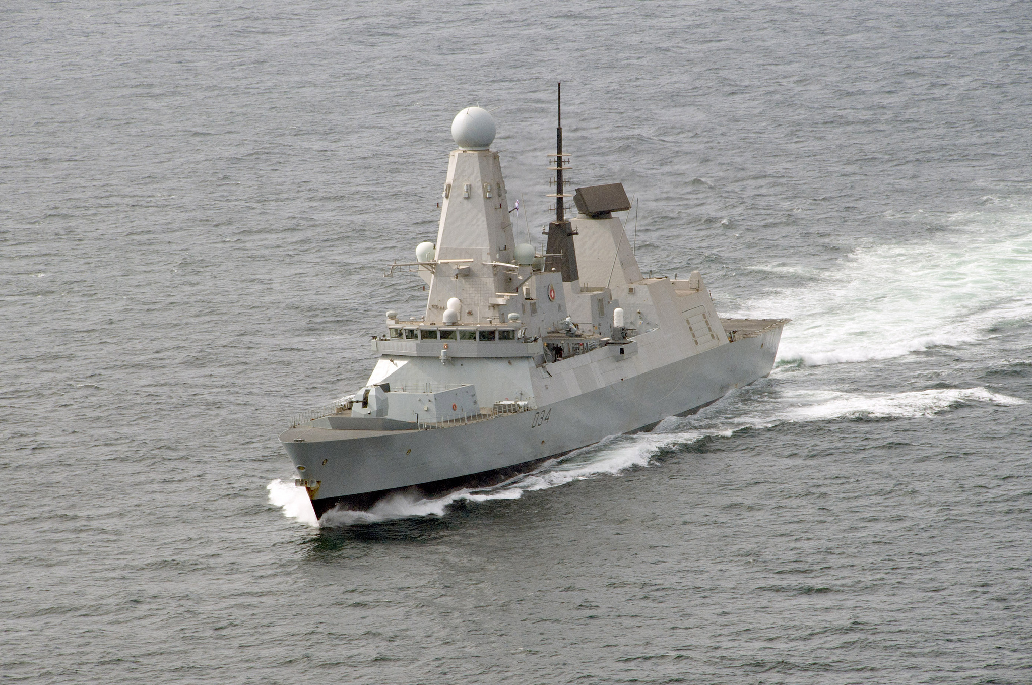 British Royal Navy destroyer HMS Diamond (D 34) steams through the Arabian Sea.